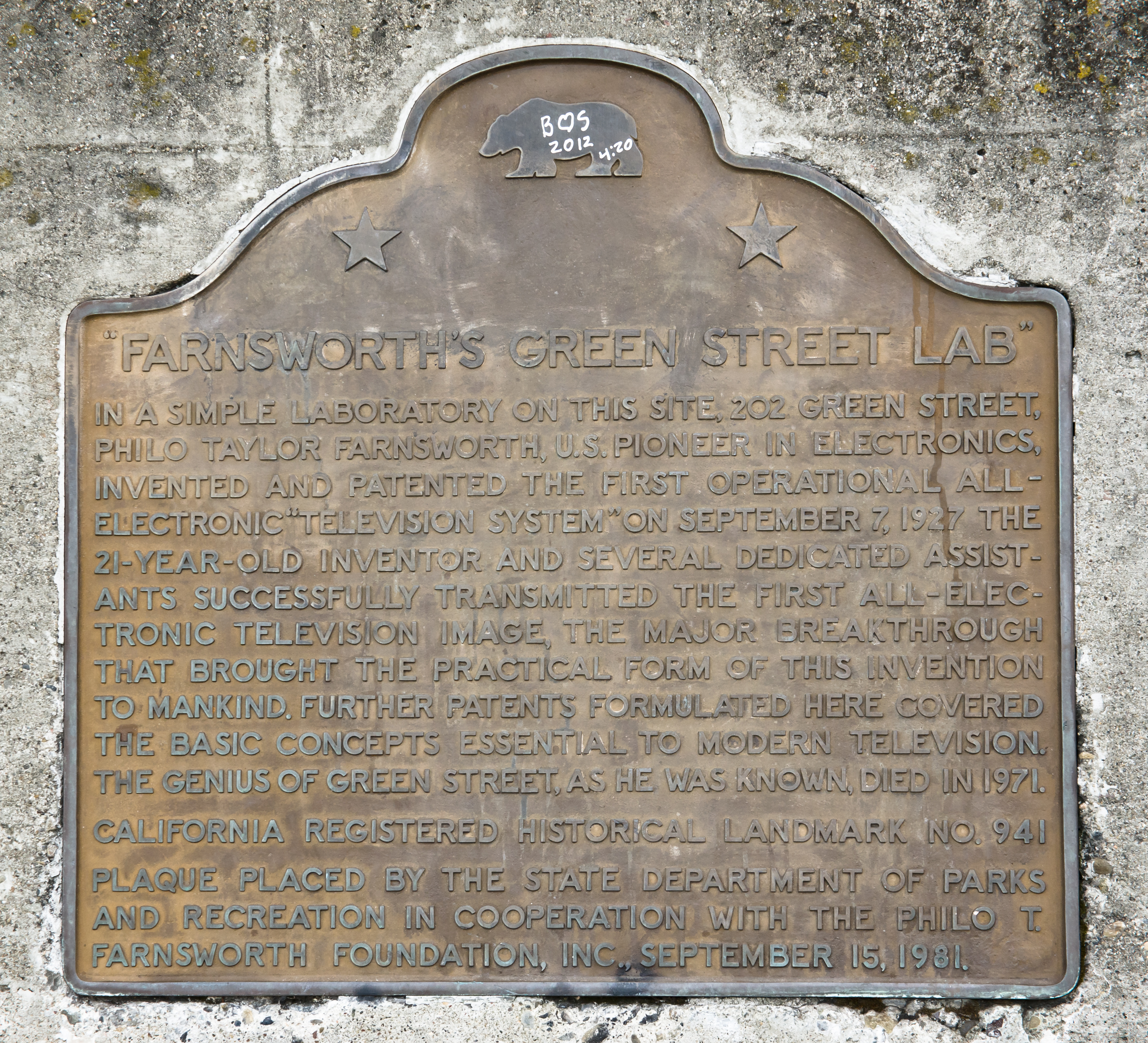 Plaque on Green Street in San Francisco dedicated to Philo Farnsworth. The text reads as follows: FARNSWORTH'S GREEN STREET LAB In a simple laboratory on this site, 202 Green Street, Philo Taylor Farnsworth, U.S. pioneer in electronics, invented and patented the first operational all- electronic television system on September 7 1927. The 21-year-old inventor and several dedicated assistants successfully transmitted the first all-electronic television image, the major breakthrough that brought the practical form of this invention to mankind. Further patents formulated here covered the basic concepts essential to modern television. The genius of green street, as he was known, died in 1971. California registered historical landmark no. 941 Plaque placed by the state department of parks and recreation in cooperation with the Philo Farnsworth Foundation, Inc., September 15, 1981.